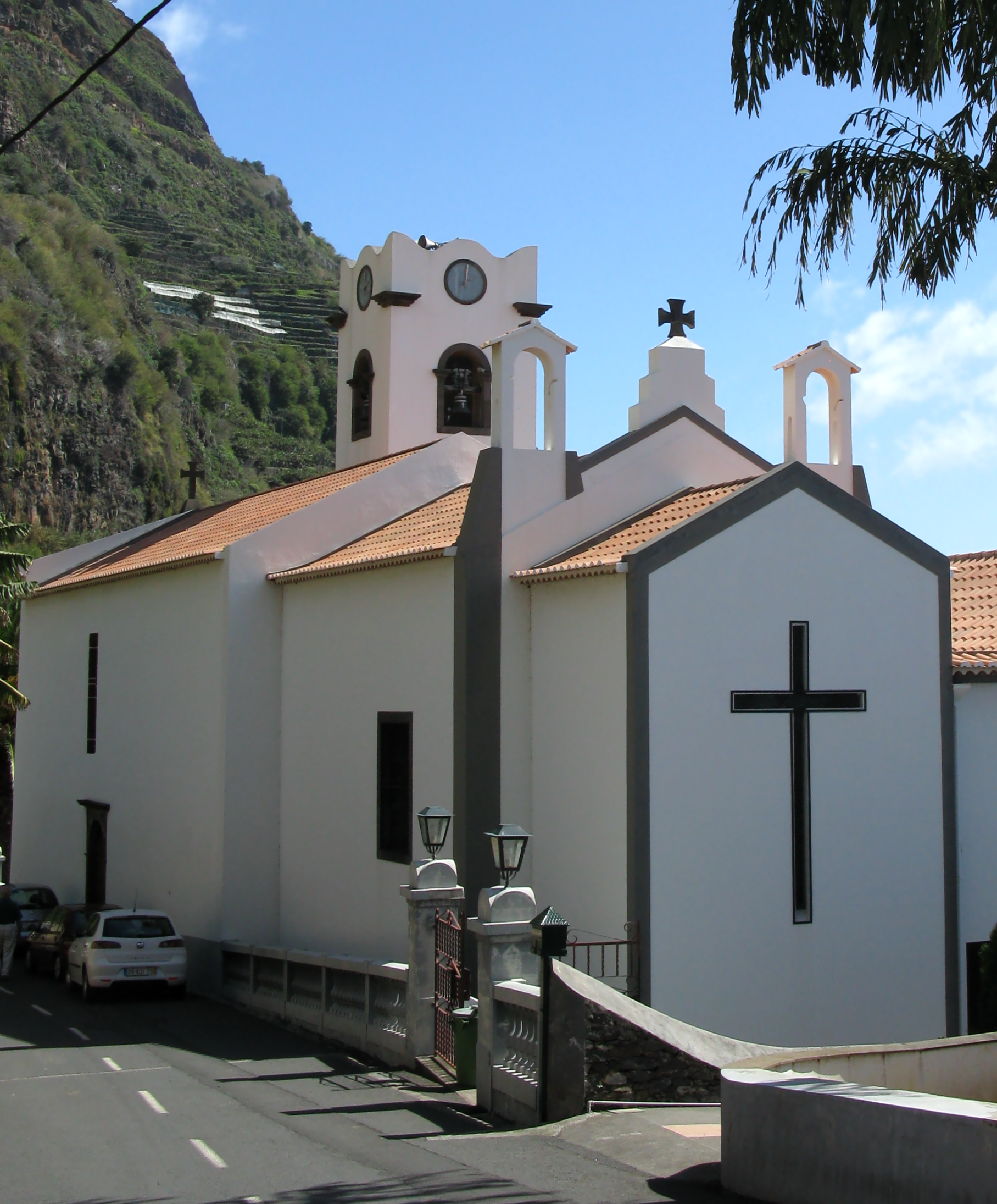 Church in Madalena do Mar, Madeira, place of legendary burial of Wladislaus III of Poland and Hungary